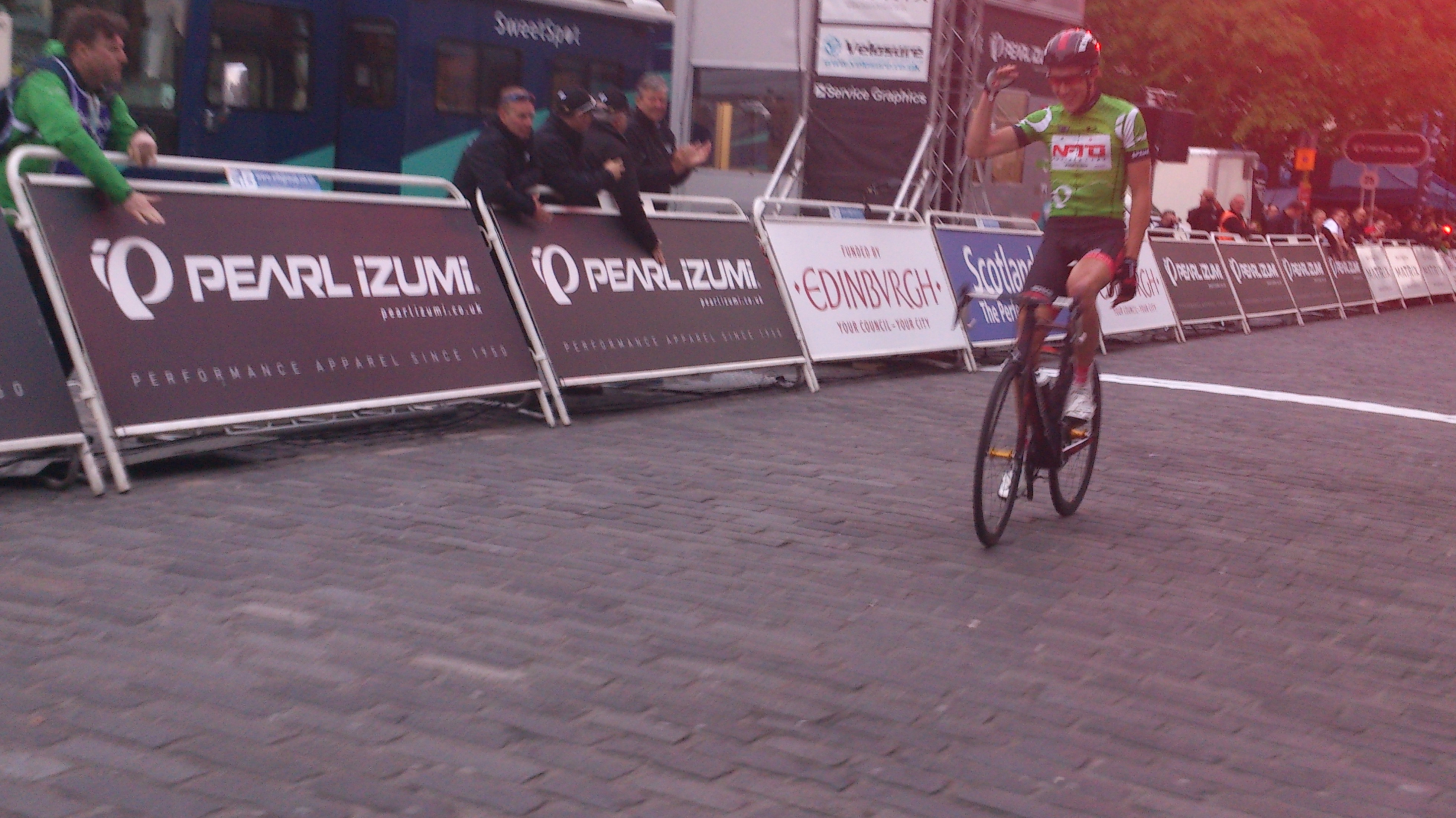 Jon Mould, having just won Round 6 of the Pearl Izumi Tour Series, at the Edinburgh Grassmarket on 29 May 2014.